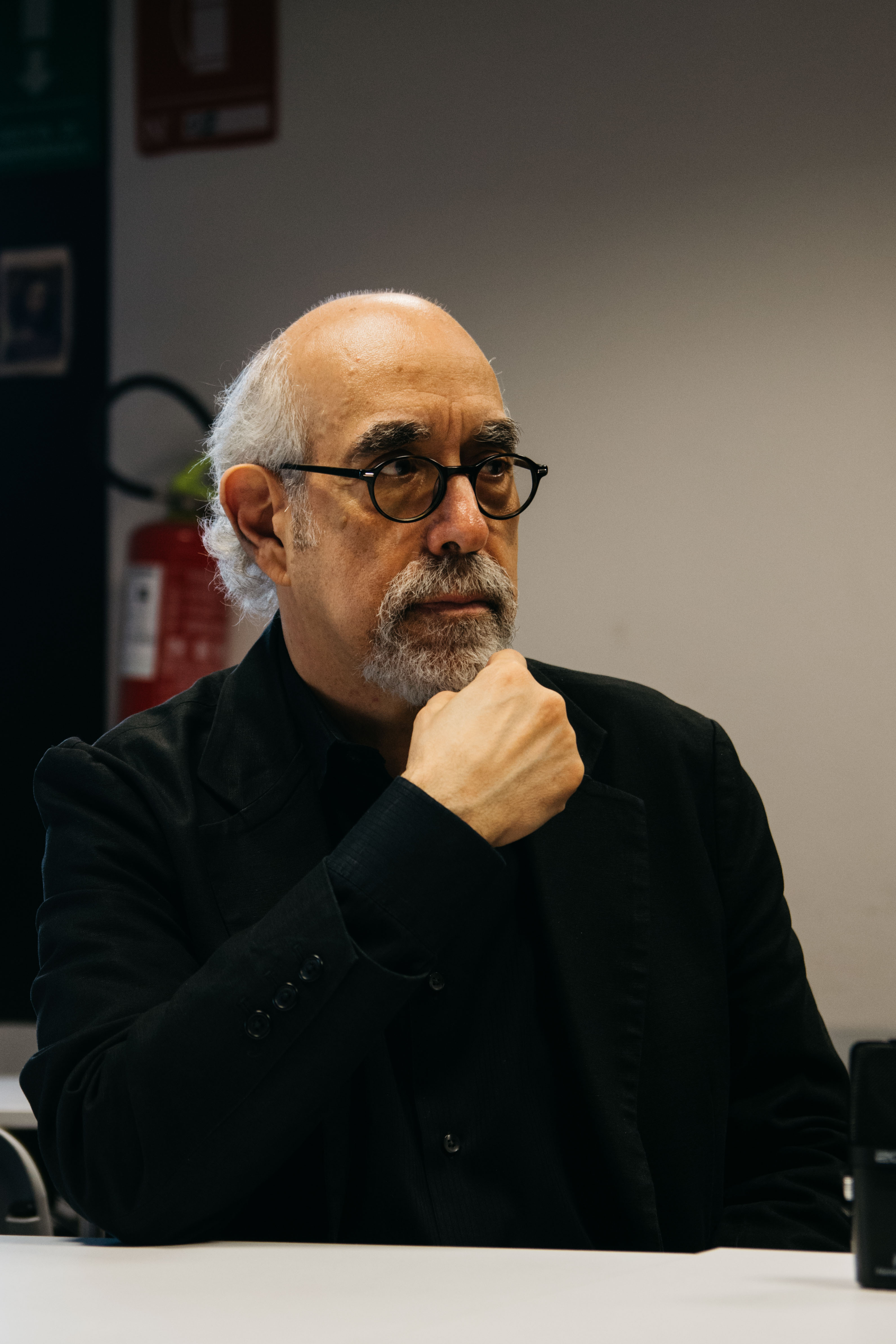 J. M. DeMatteis having an interview during Etna Comics, an Italian comics convention.